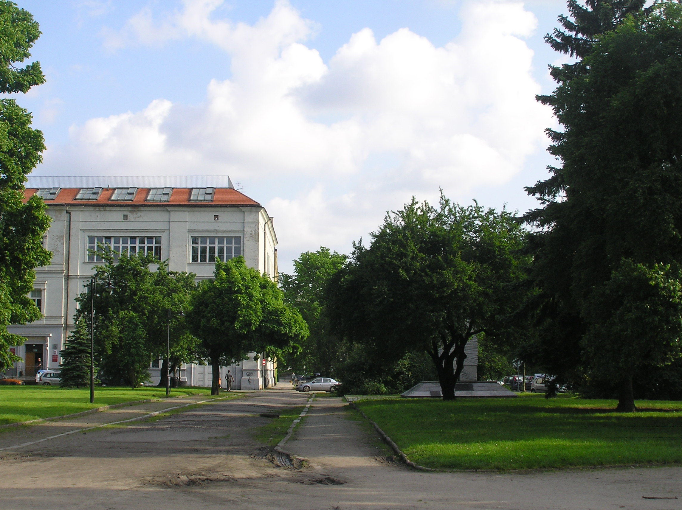 Wrocław, Xawerego Dunikowskiego Boulevard